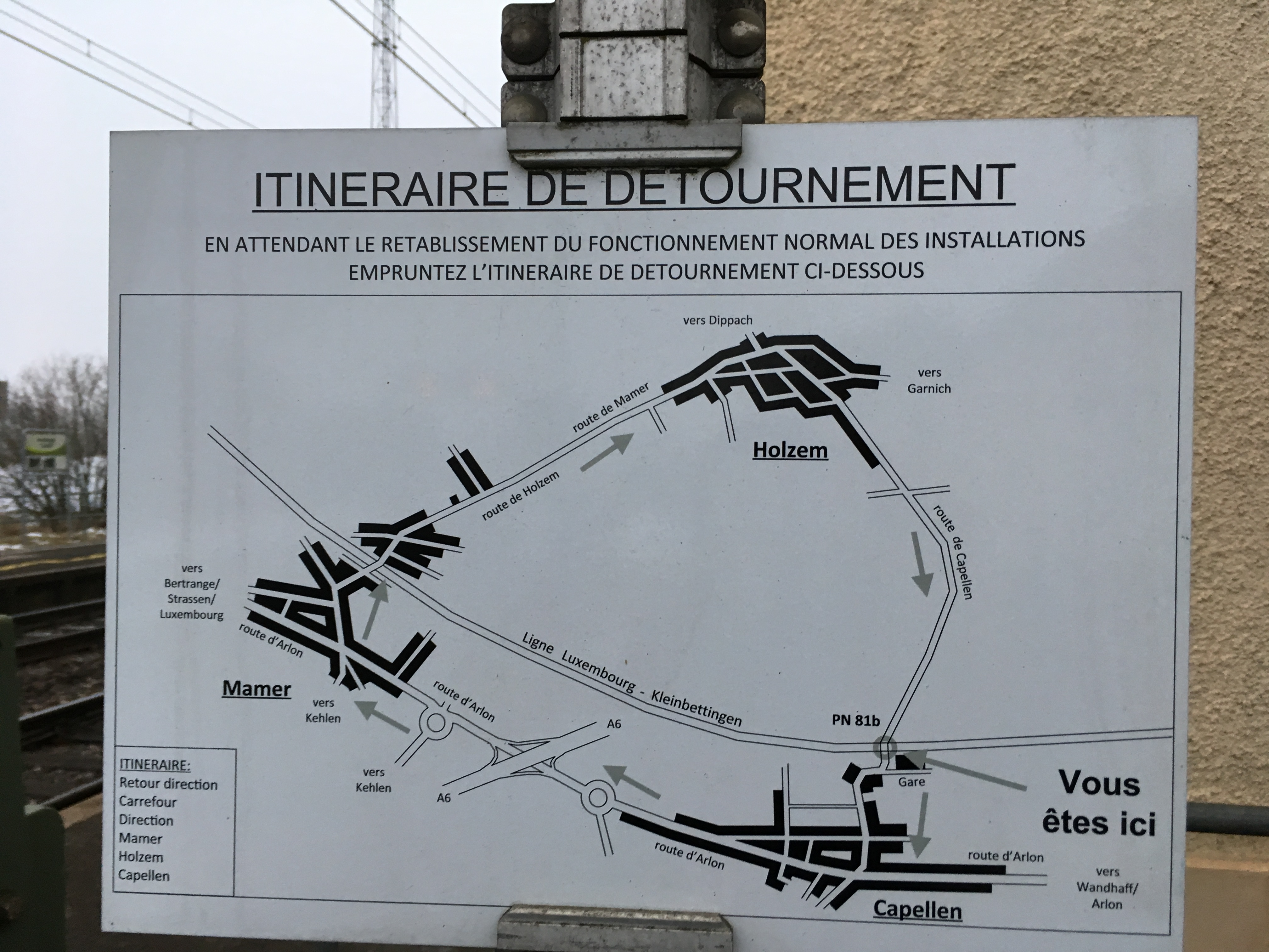 Capellen railway station, Luxembourg, January, 2017